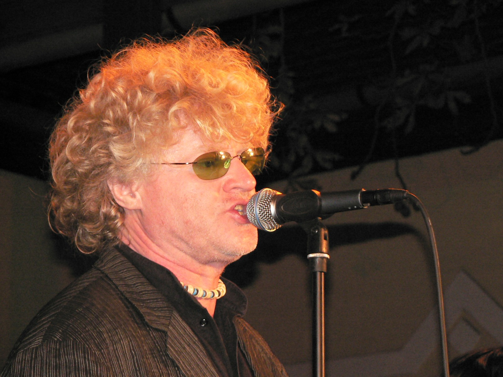 Müller Péter Sziámi